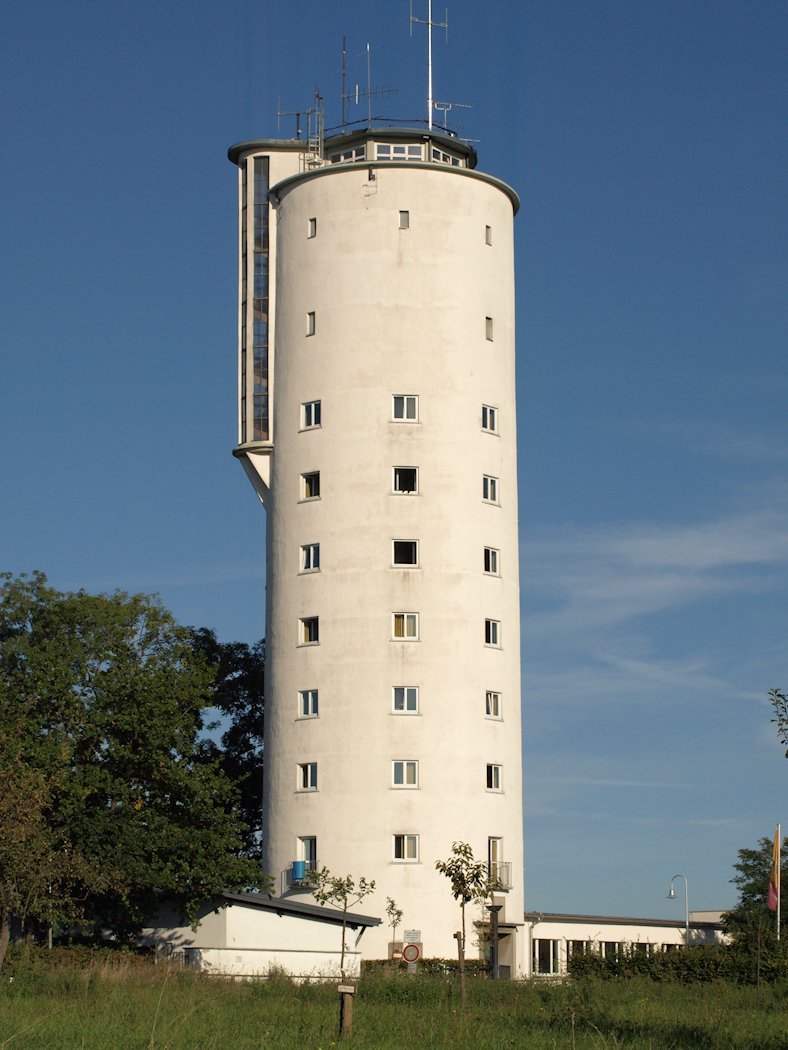 Konstanz (Bodensee, Germany), water tower, photo 2010